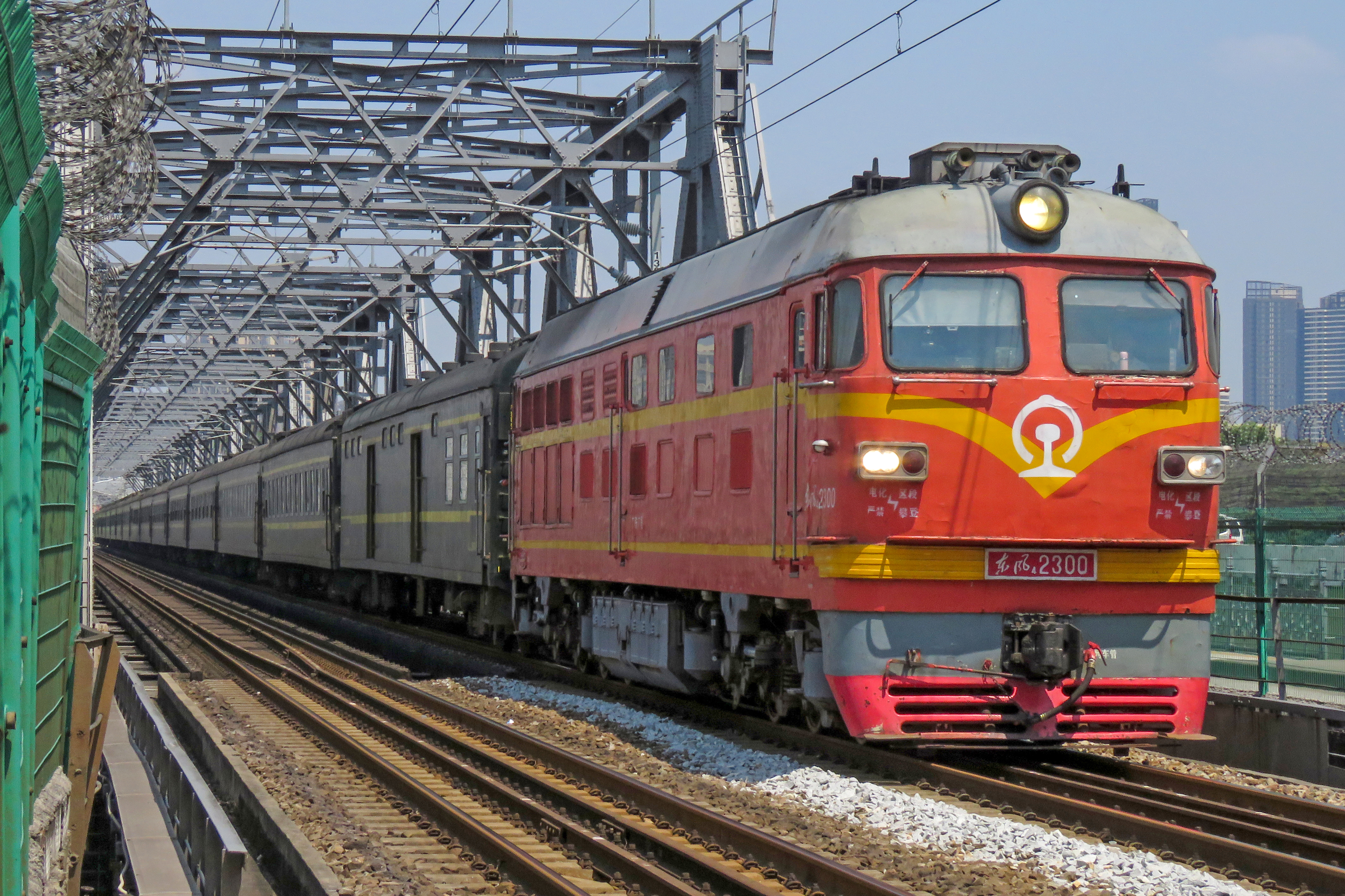 K837 from Chongqing North to Shenzhen West.